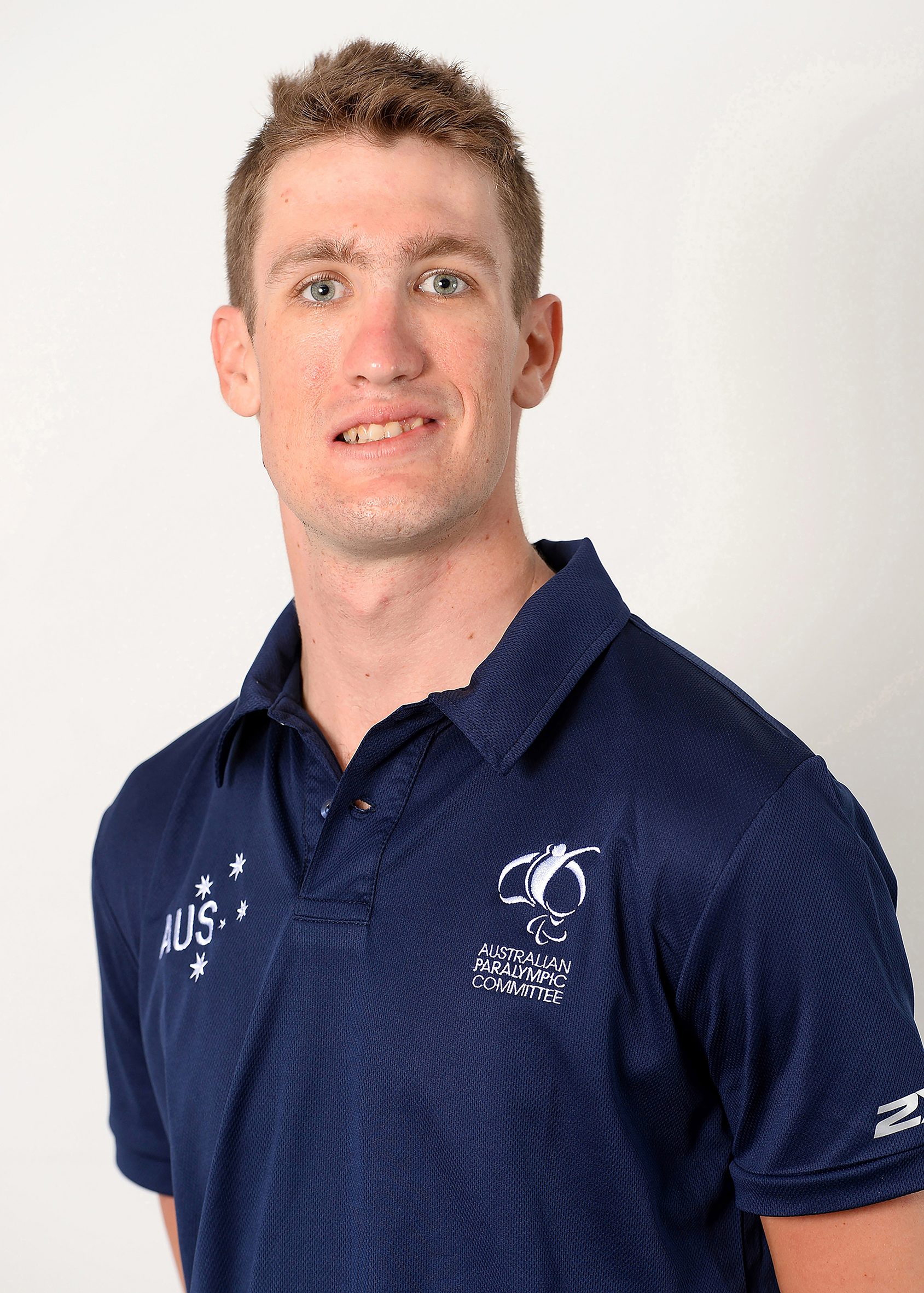 Portrait photograph of David Nichols taken at team processing session for shadow members of 2016 Australian Paralympic team